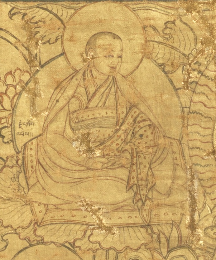 Konchok Pelwa, b.1445 - d.1514, Seventh Ngor Khenchen